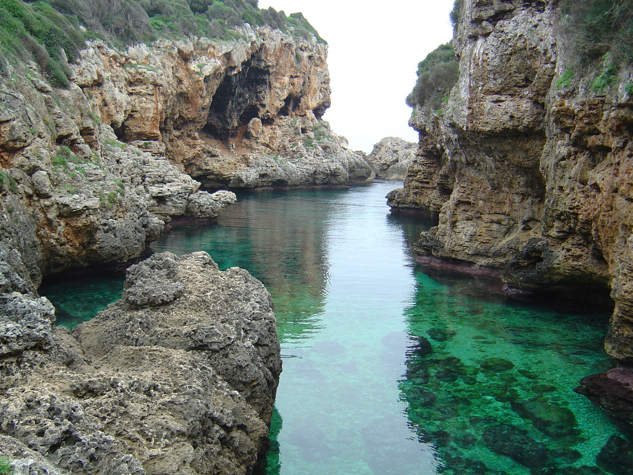 Cala rafalet